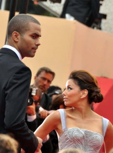 Tony Parker and Eva Longoria at the Cannes film festival